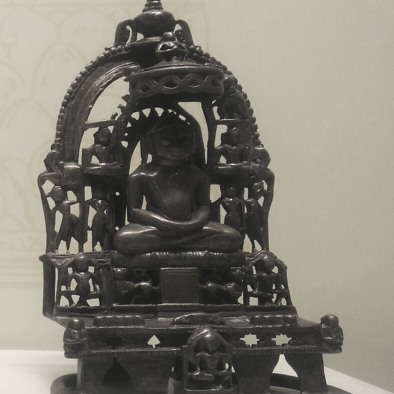 Adinatha: Tirthankara Adinatha seated on simhasana flanked by Gomukha Yaksha and Chakreshwari Yashwini and four Tirthankaras . The inscription on pedestal reads 'Sam 1485 varshe Ganapathi Putrasa Apamallika ,Sri Adinatha Bimbakaritam Pratishtitham ' meaning that this image of Adinatha was made and consecrated in Saka 1486(A.D. 1564) by apamallika son of Ganapathi.